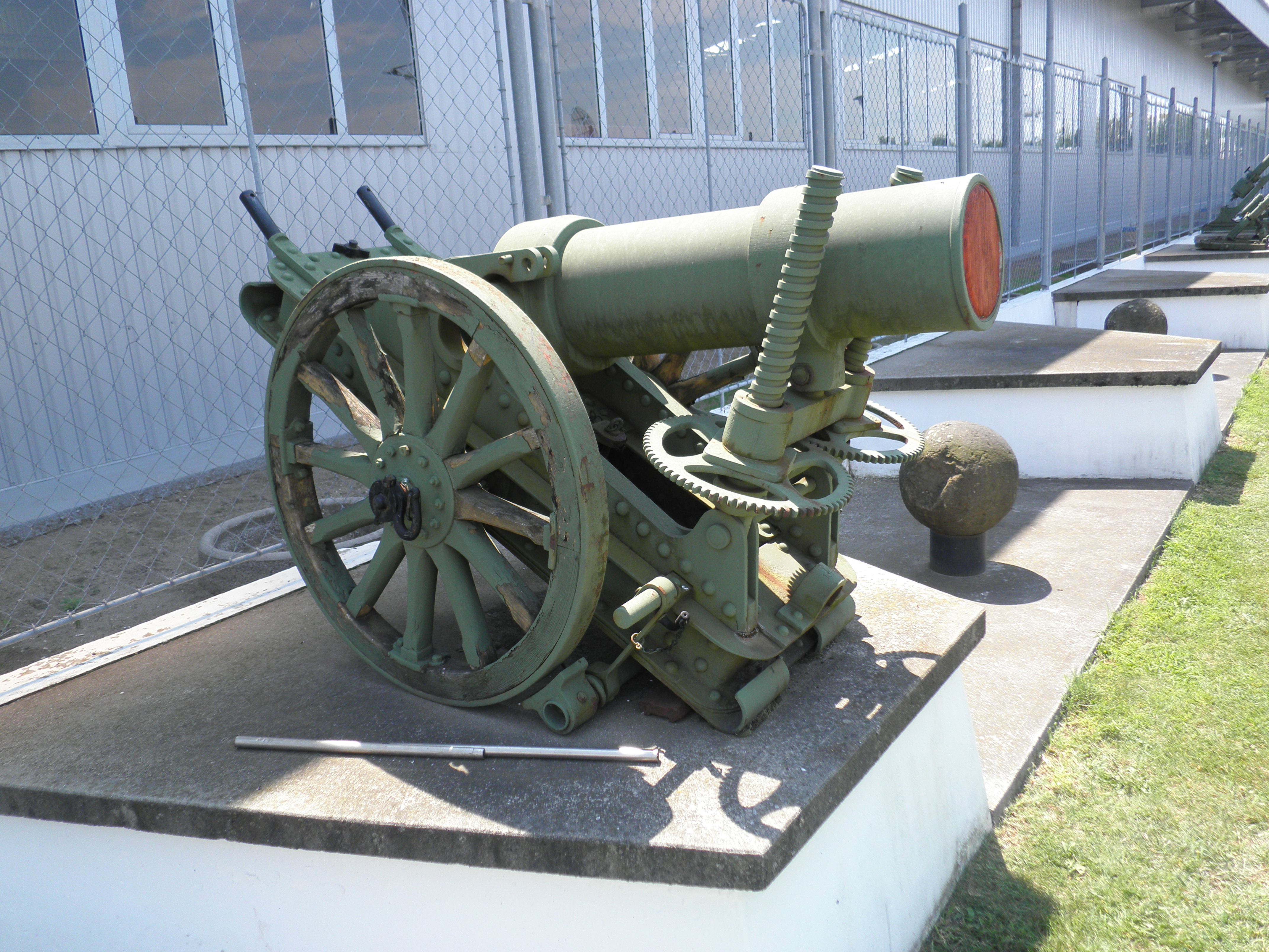 22,5 cm Minenwerfer M. 17 in Army History Museum and Park in Kecel, Hungary